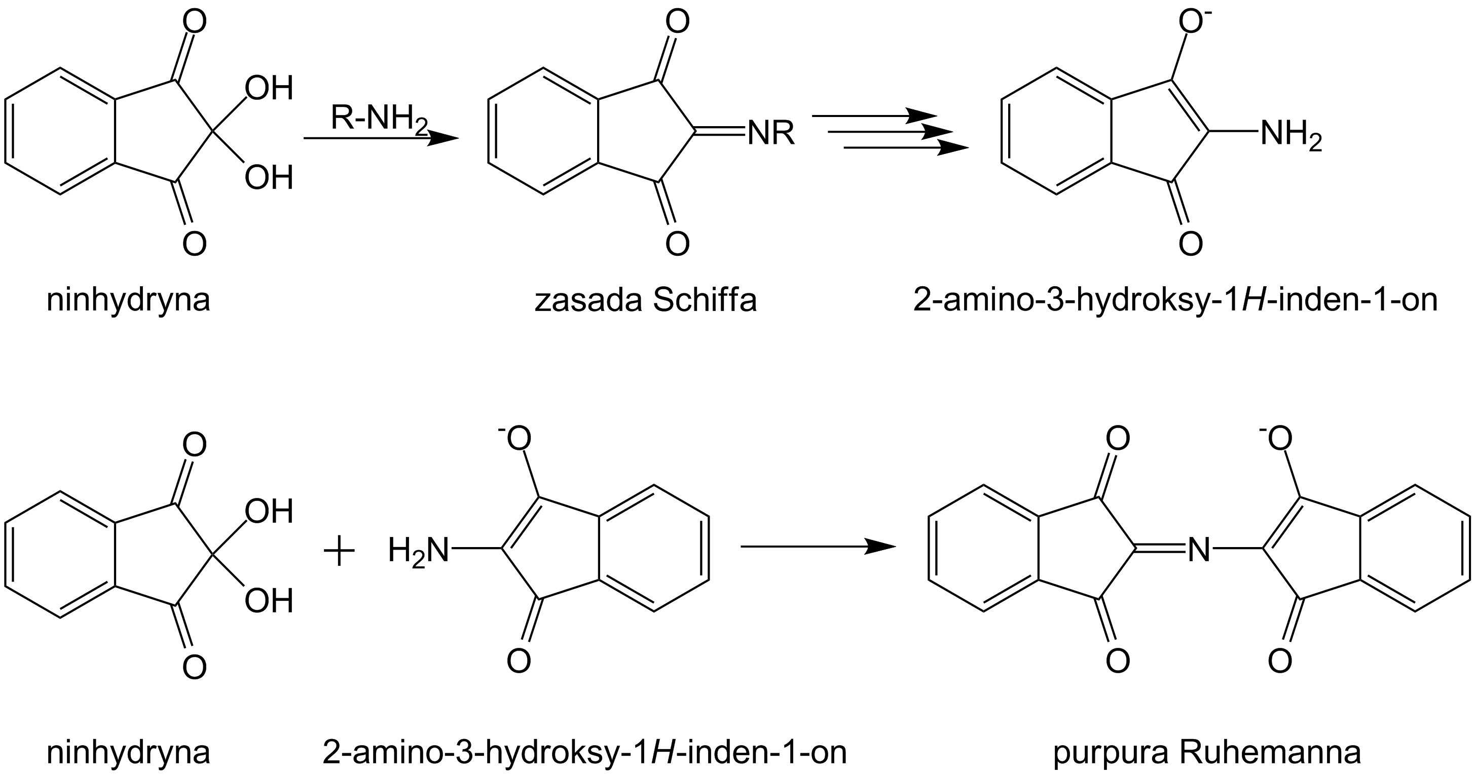 Ninhydrin reaction mechanism outline